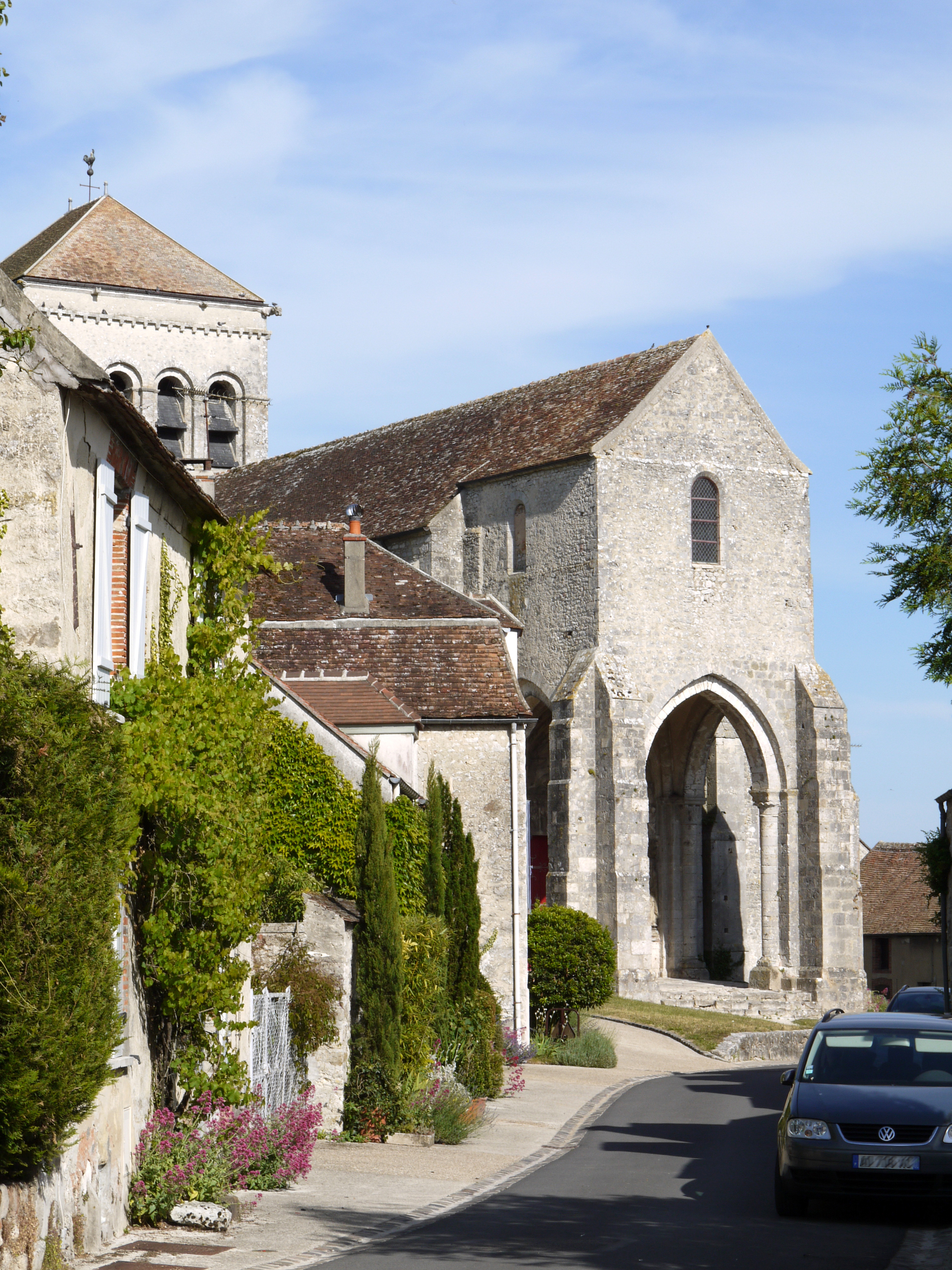 Church of Saint Loup de Naud, Seine et Marne, France, église de style partiellement roman du XI et XIIème siècle